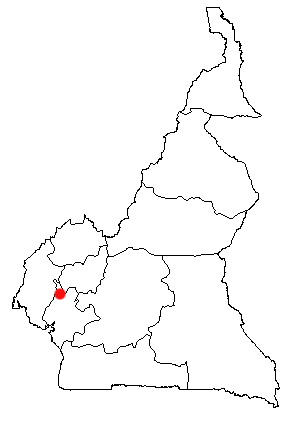 Nkongsamba, Cameroon Location Map; created with the GIMP. Made by User:Acntx.